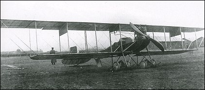 Photo of Sikorsky S-6-B aircraft circa 1911